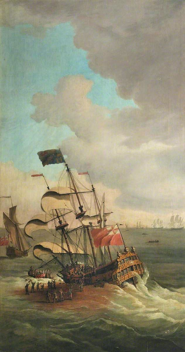 The Wreck of HMS 'Gloucester' off Yarmouth, 6 May 1682, by Monamy Swaine Mediumː oil on panel Measurementsː H 152.4 x W 76.2 cm Swaine, Monamy; The Wreck of HMS 'Gloucester' off Yarmouth, 6 May 1682; National Maritime Museum